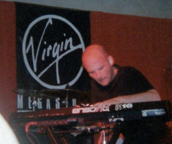 MOBY - Virgin Megastore @ Union Square, NYC 6.2.99